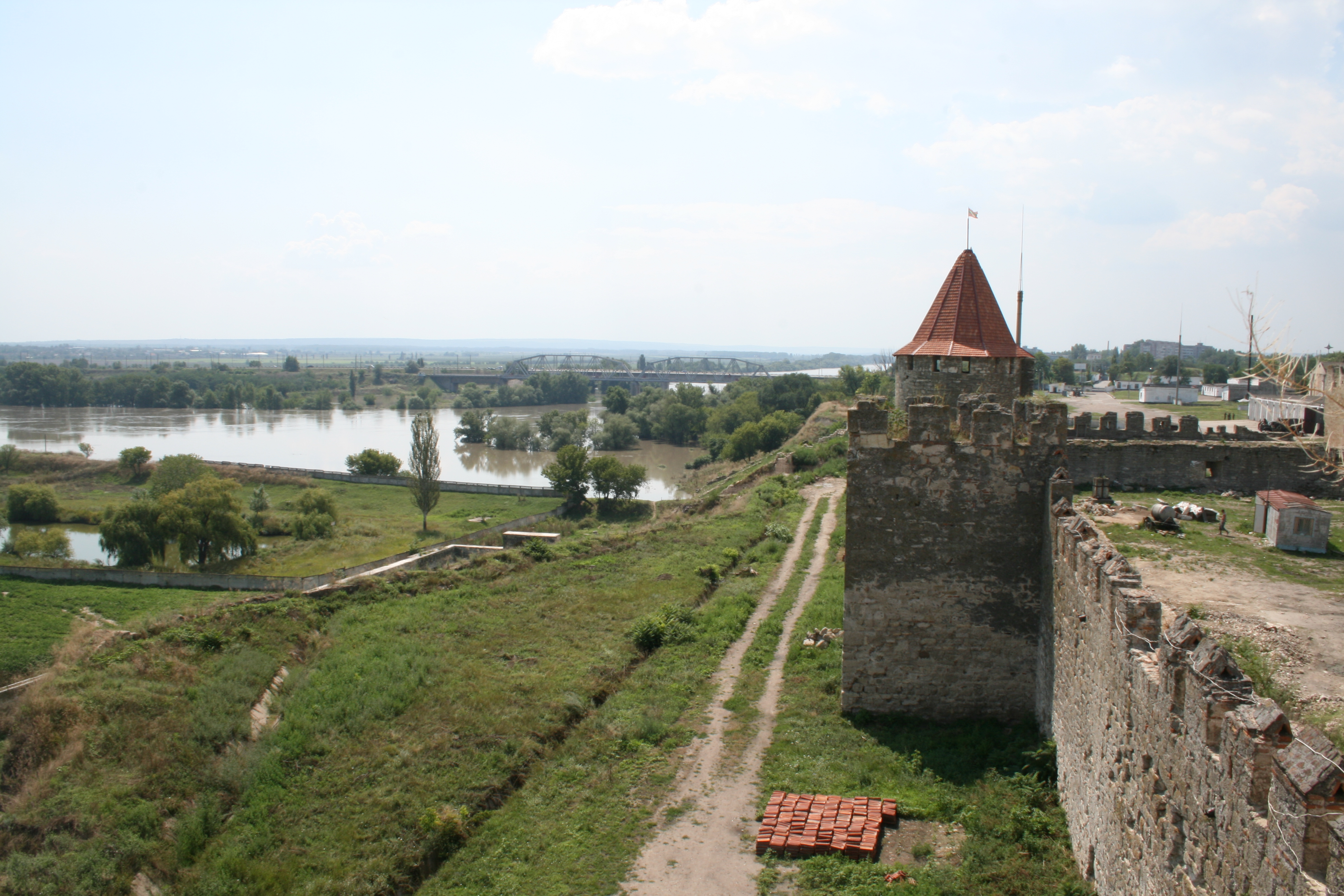 Turkish Fortress an the niestr in Bendery (Transnistria)